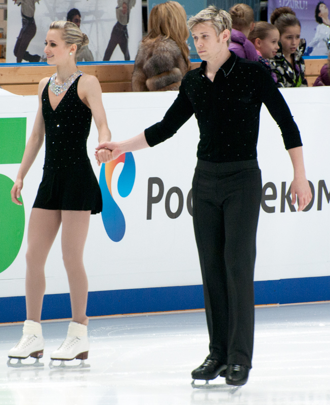 2011 Cup of Russia, short program.